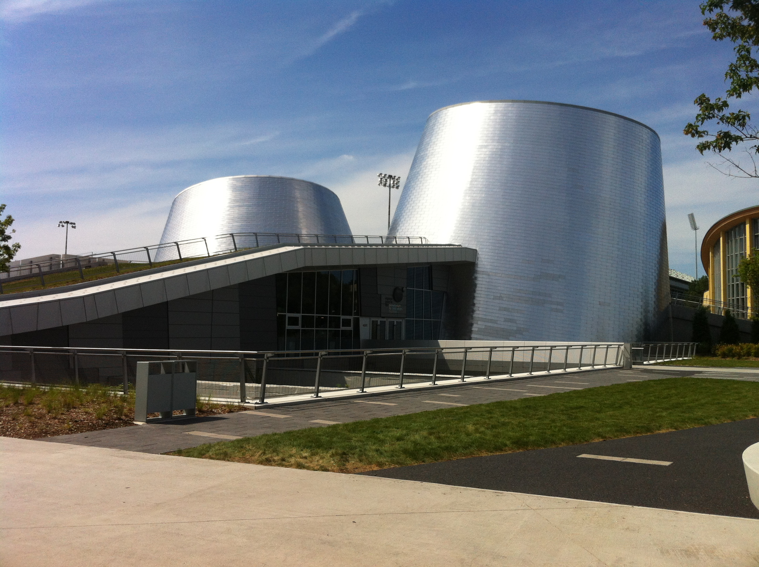 RioTinto Alcan Planetarium in Montreal, Canada.